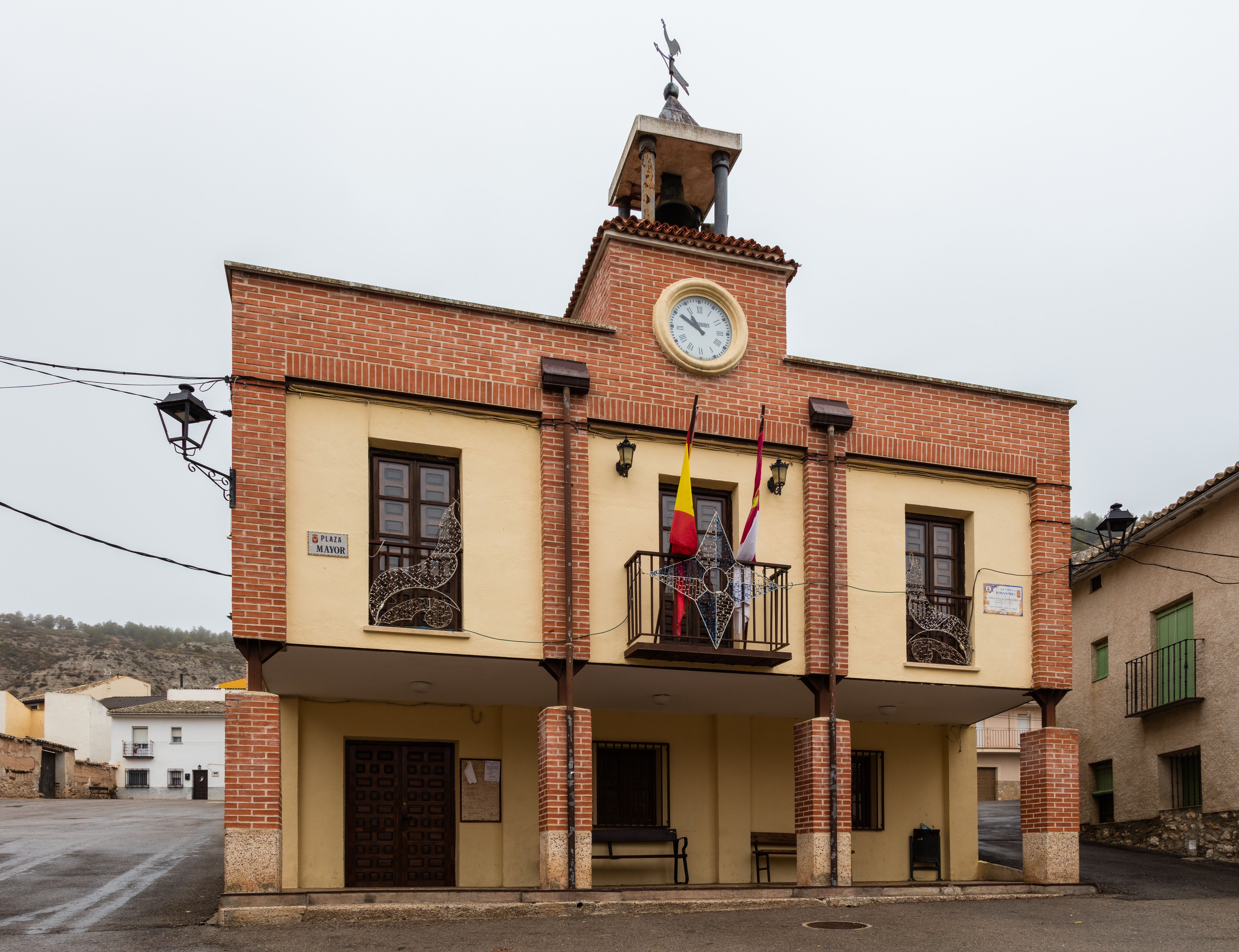 Ayuntamiento, Romanones, Guadalajara, Spain